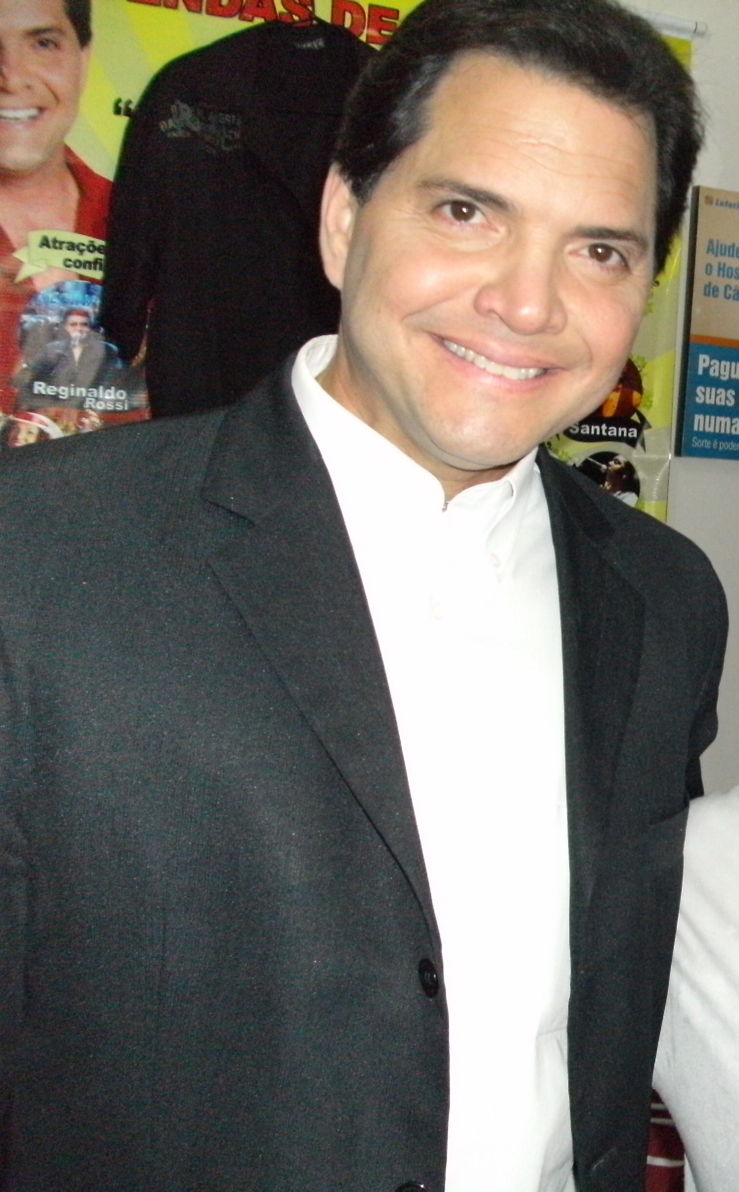 Denny Oliveira is a television presenter from Brazil.